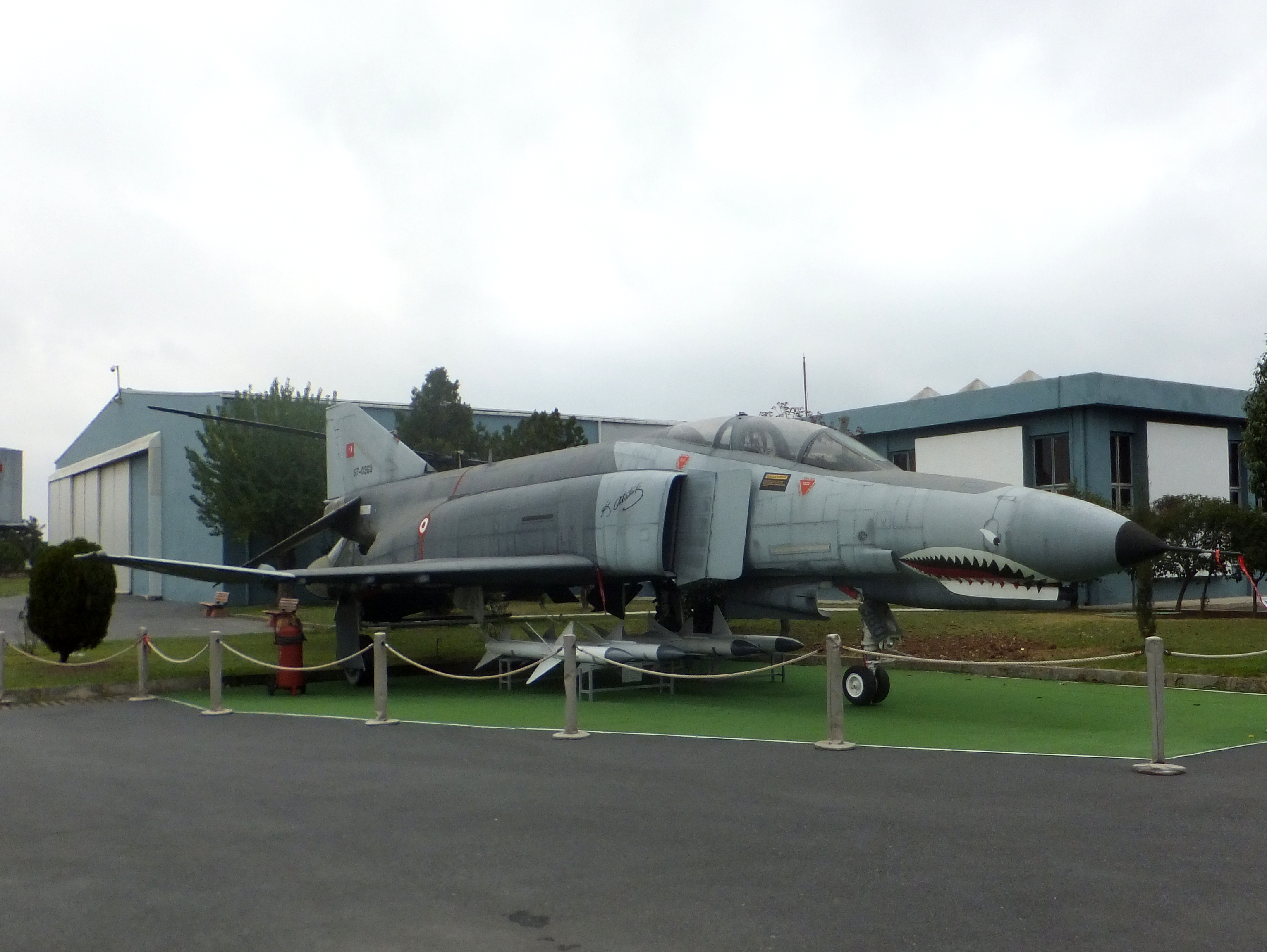 A retired F-4E Phantom II, serial number 67-0360, used by the Turkish Air Force, now currently retired and housed at the Istanbul Aviation Museum, Republic of Turkey